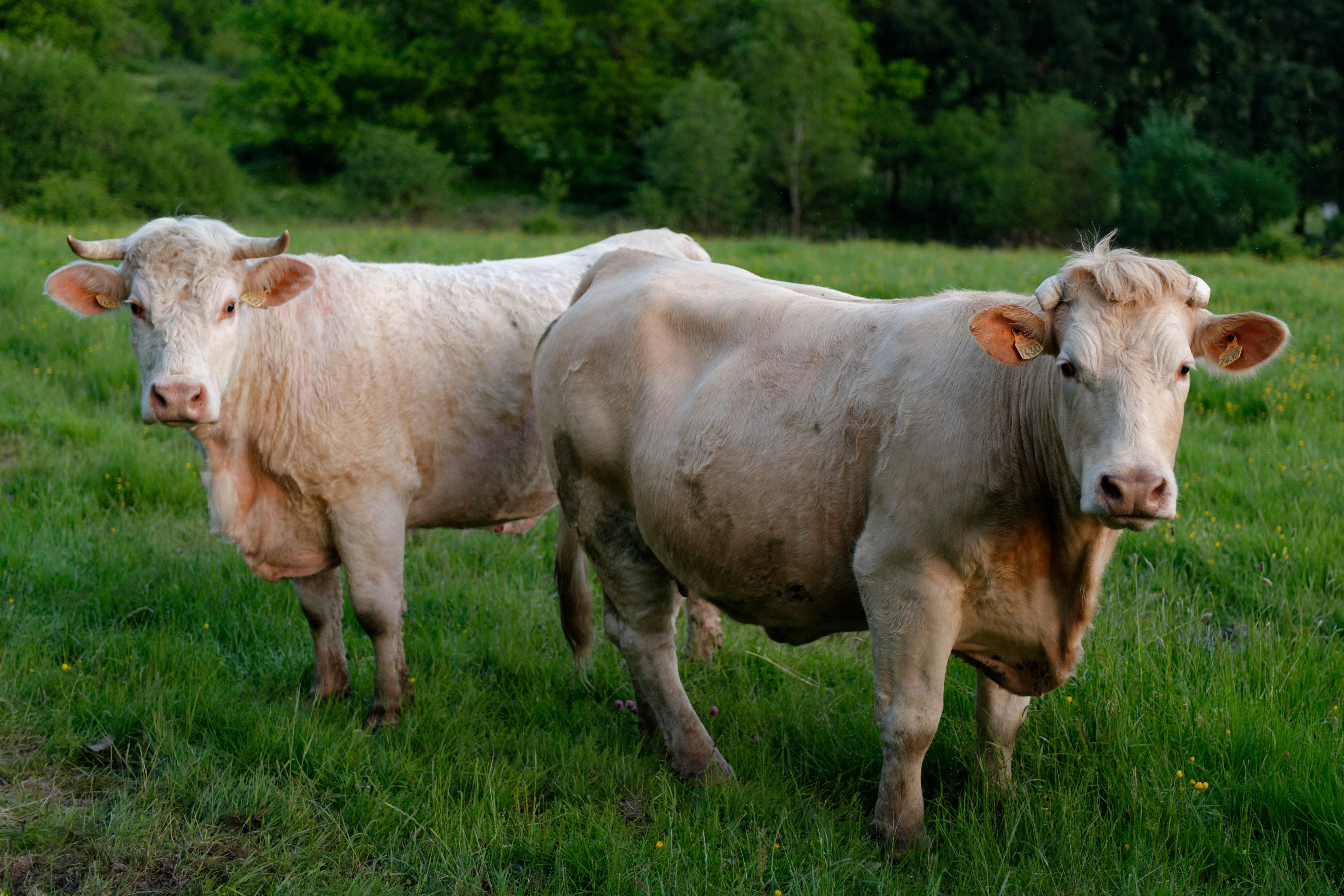 Charolais cows in Auvergne, France.